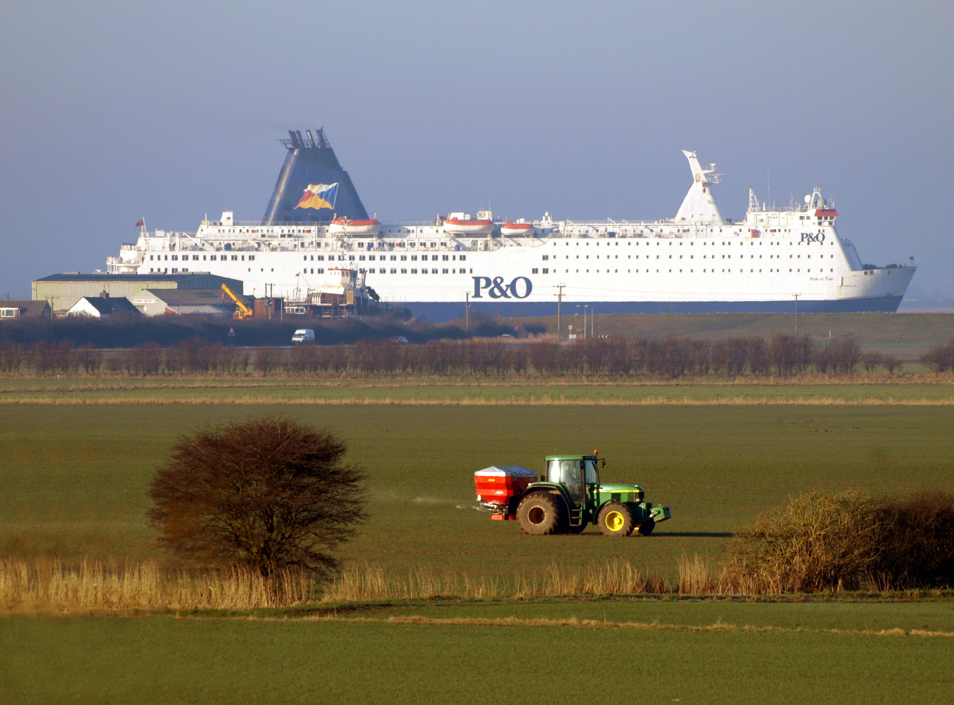 Fertiliser, Farming and Ferry, Paull, East Riding of Yorkshire, England.A farmer distributes fertiliser from the back of his John Deere tractor on farmland north of Newton Garth near to the Hedon to Paull road early in the morning. At the same time, North Sea Ferry Pride of York passes on the River Humber just before it berths up outside of King George Dock in Hull. Towards the stern of the boat can be seen Paull Shipyard where a sea-going tug is being built – it is dwarfed by the ferry behind it! The embankment on the side of the Humber hides the river itself, so the ferry looks like a field object in its own right! As a telephoto lens was used for the photograph, the tractor seems to be close to the ferry, but the latter in reality, is well over a mile behind it! The photo was taken from Hedon Flyover